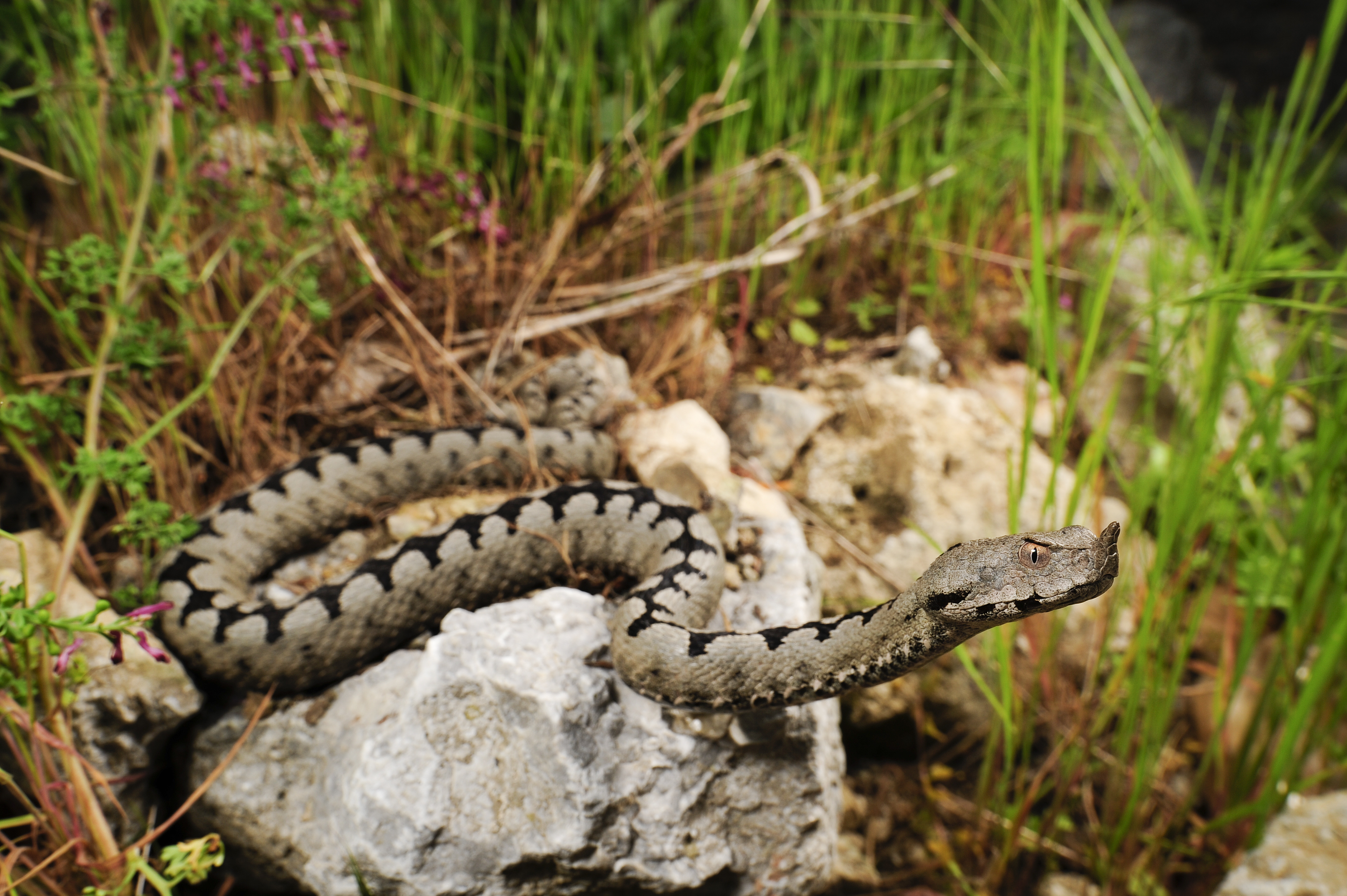 Vipera ammodytes ammodytes Sandviper from Croatia